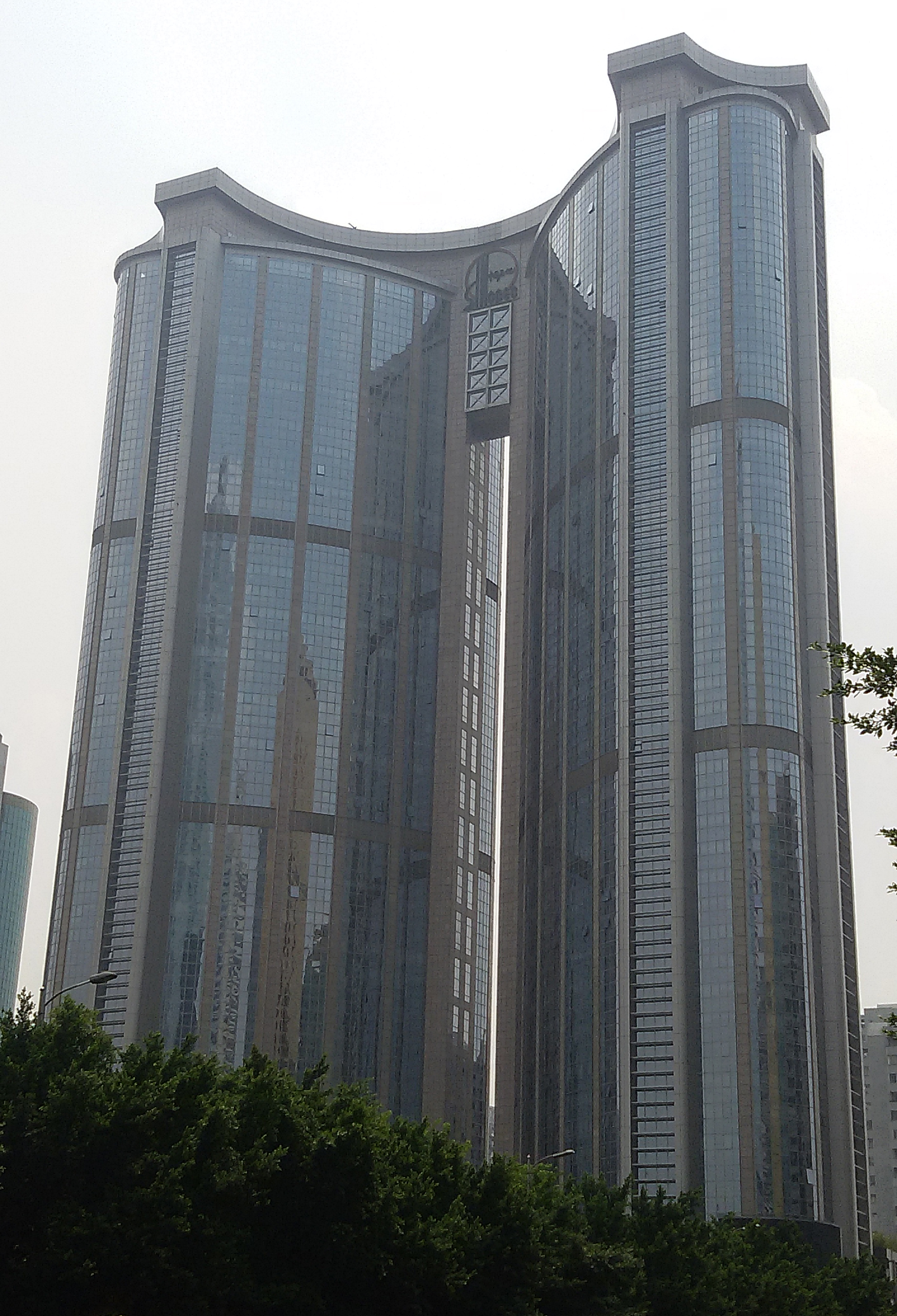 SINOPEC TOWER 粵語: 中石化大廈